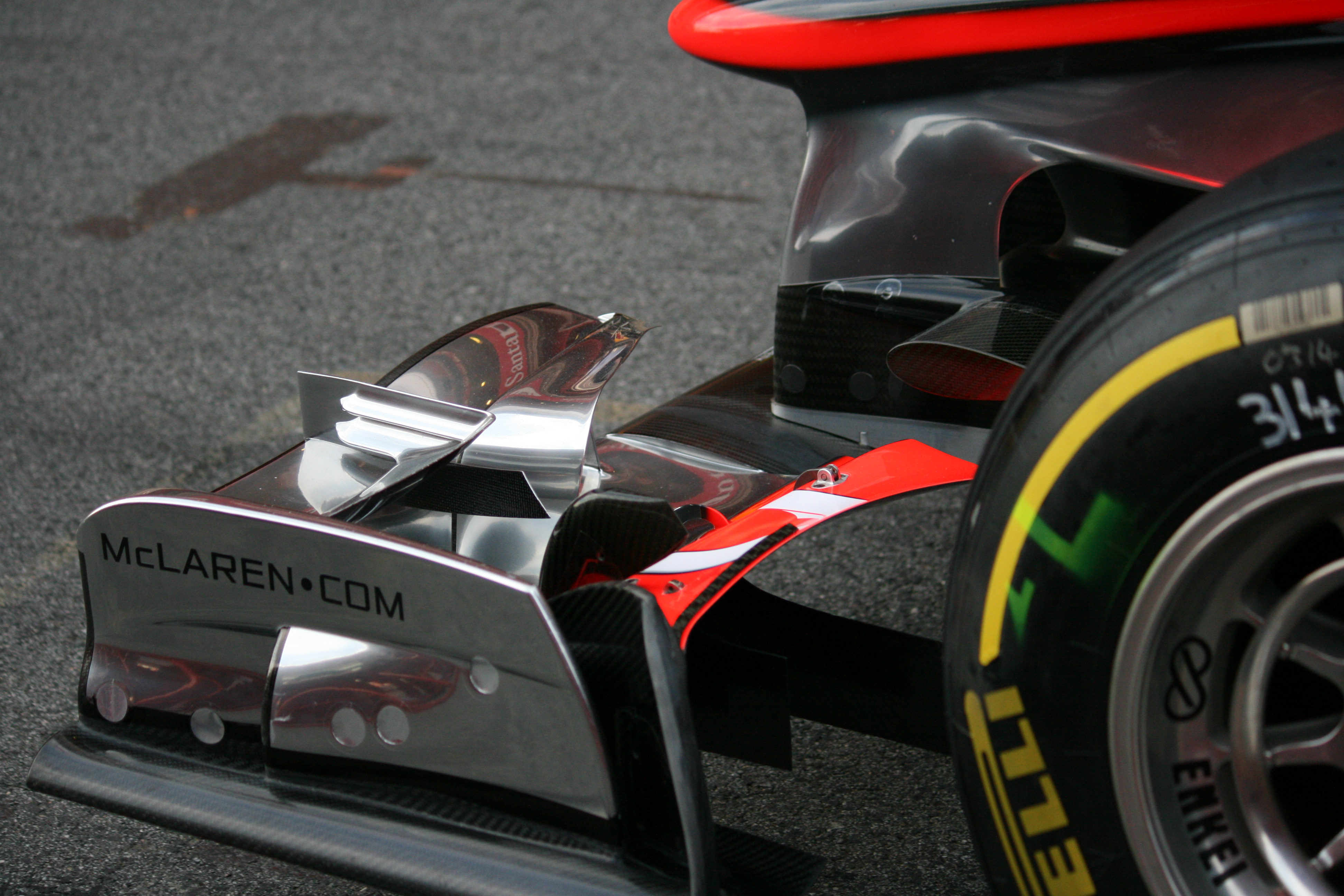 Part of rear wing of McLaren MP4-26, version for 2011 Spanish Grand Prix